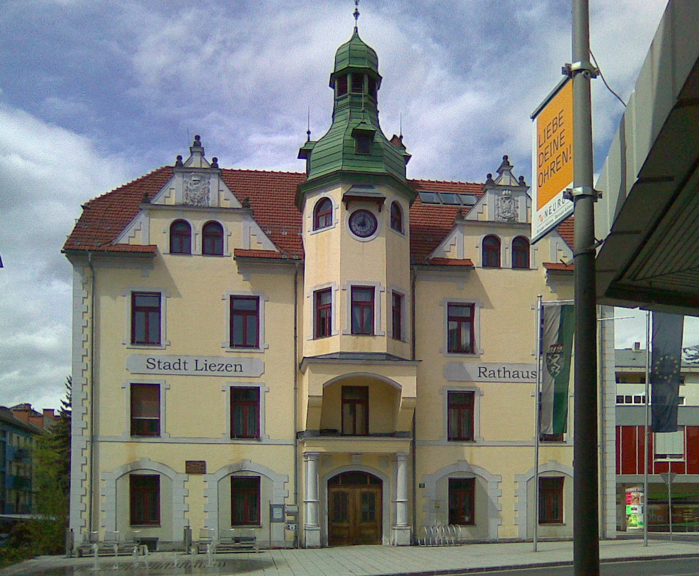 Town Hall of Liezen